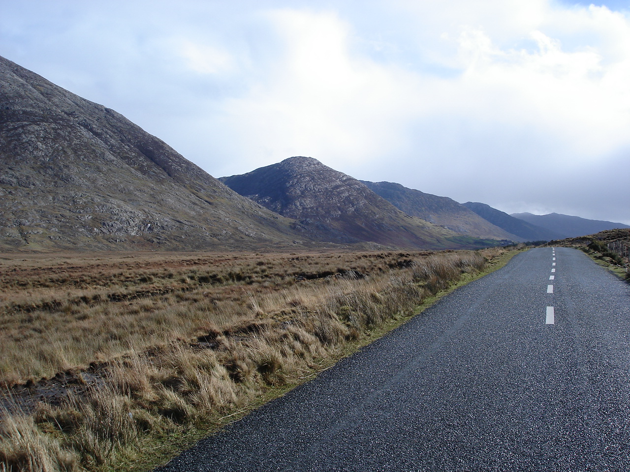 Maumturk Mountains, County Galway, Ireland